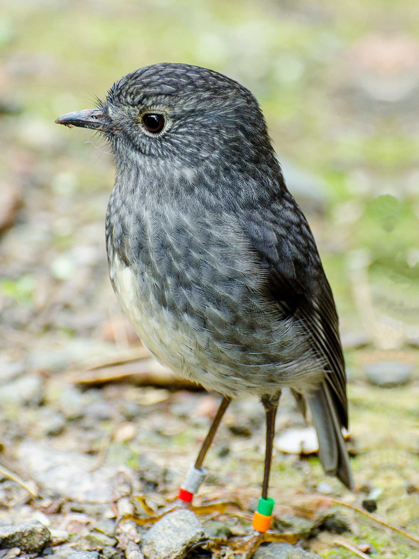 New Zealand North Island Robin photographed on Tiritiri Matangi Island. It has been banded by local conservationists.